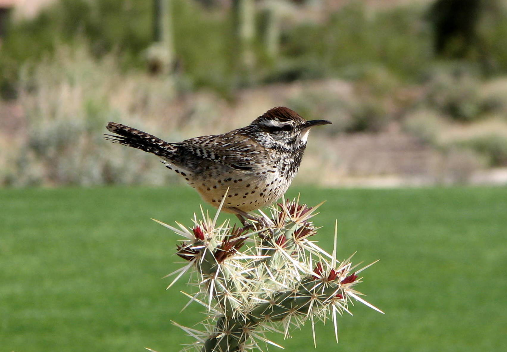 Cactus Wren (Campylorhynchus brunneicapillus), picture taken at Gold Canyon Golf Resort, Arizona, USA